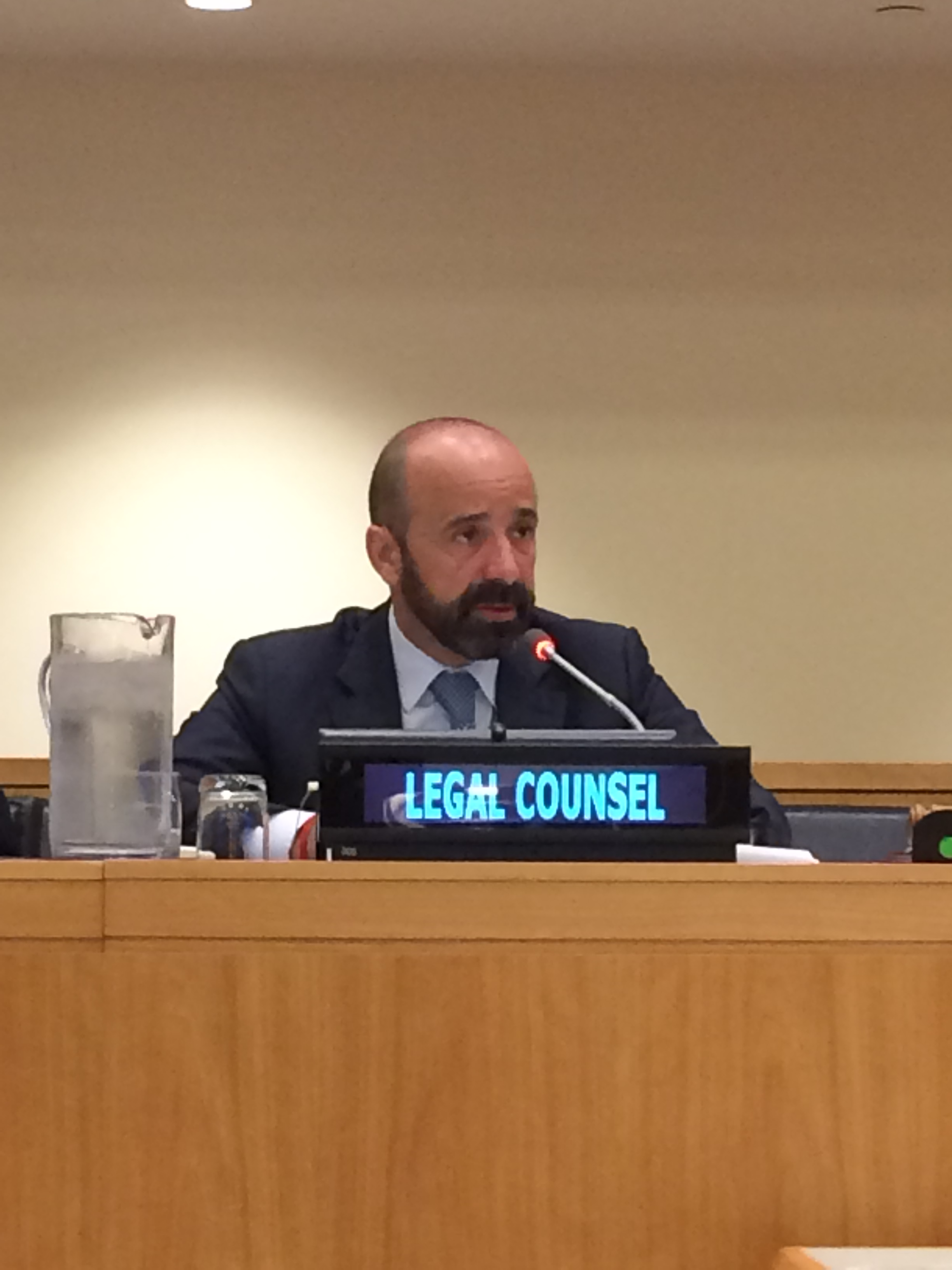 Miguel de Serpa Soares, the under-Secretary-general for Legal Affairs and Legal Counsel of the United Nations.